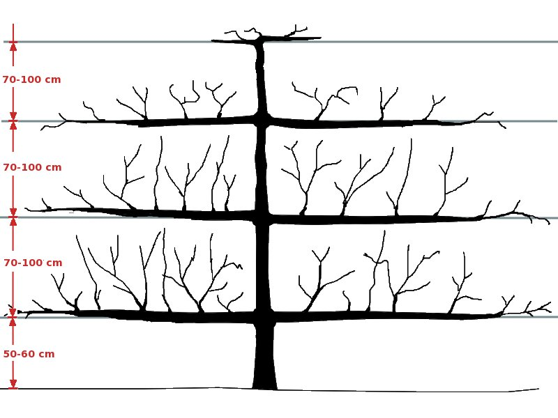 Regular espalier with horizontal branches